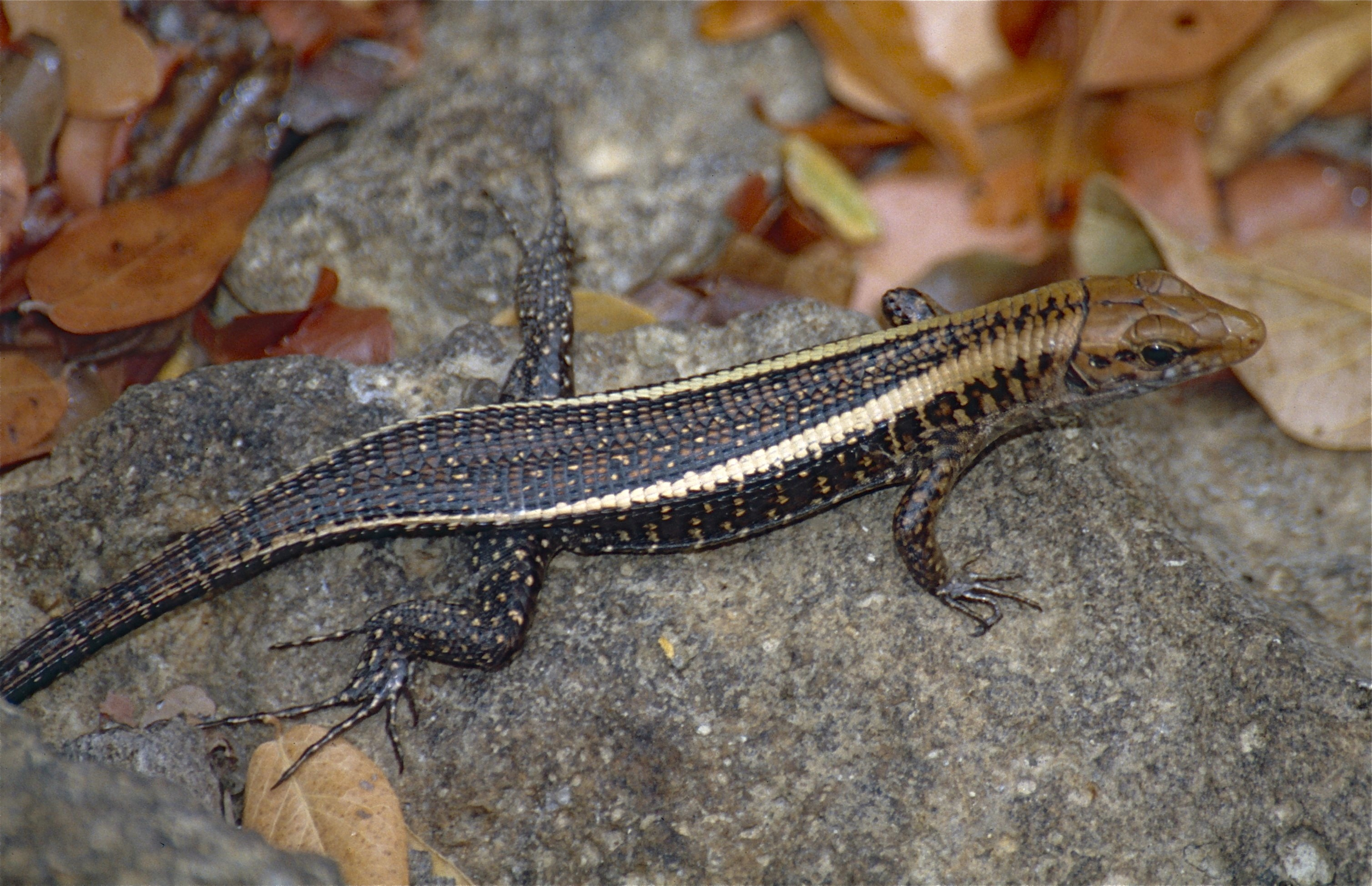 Kirindy Forest, MADAGASCAR Scanned Slide from 1998